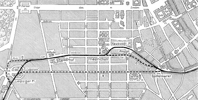 The different alternatives of the line routeing of the Berlin U-Bahn line U2 between Leipziger Platz and Spittelmarkt